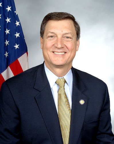 Lynn Westmoreland, member of the United States House of Representatives.